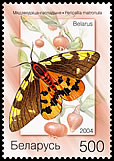 Stamp of Belarus